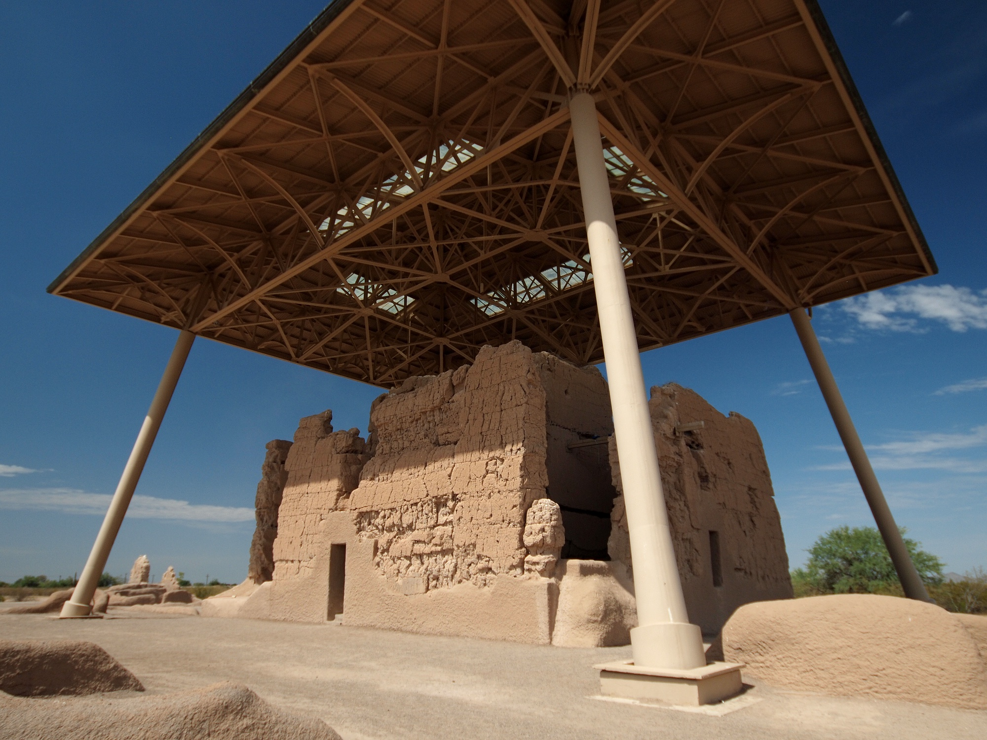 Casa Grande Ruins National Monument in Coolidge. Photo taken with an Olympus E-P1 in Pinal County, AZ, USA. Cropping and post-processing performed with The GIMP.